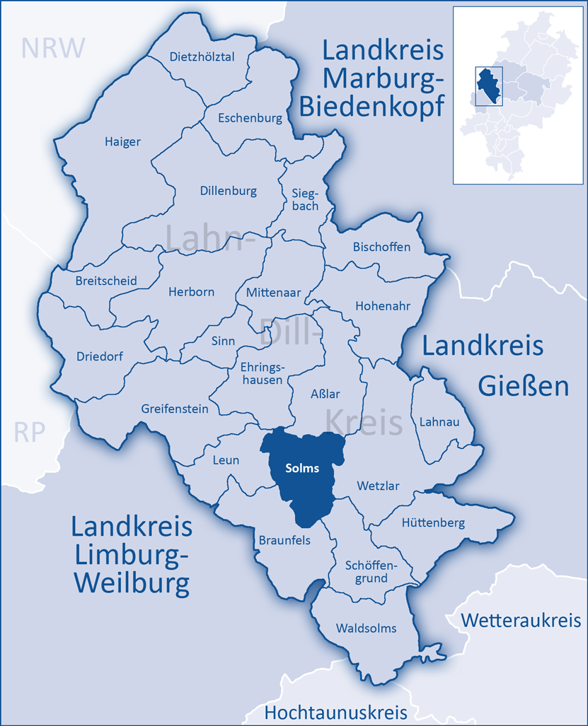 The map shows a district in the area of Lahn-Dill-Kreis